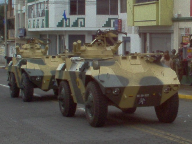 Cropped version of a previous Commons image. Brazilian-manufactured EE-3 Jararaca military vehicle. Cropped to produce a more relevant image for the specific vehicle depicted. Limited contextual relevance to original work.